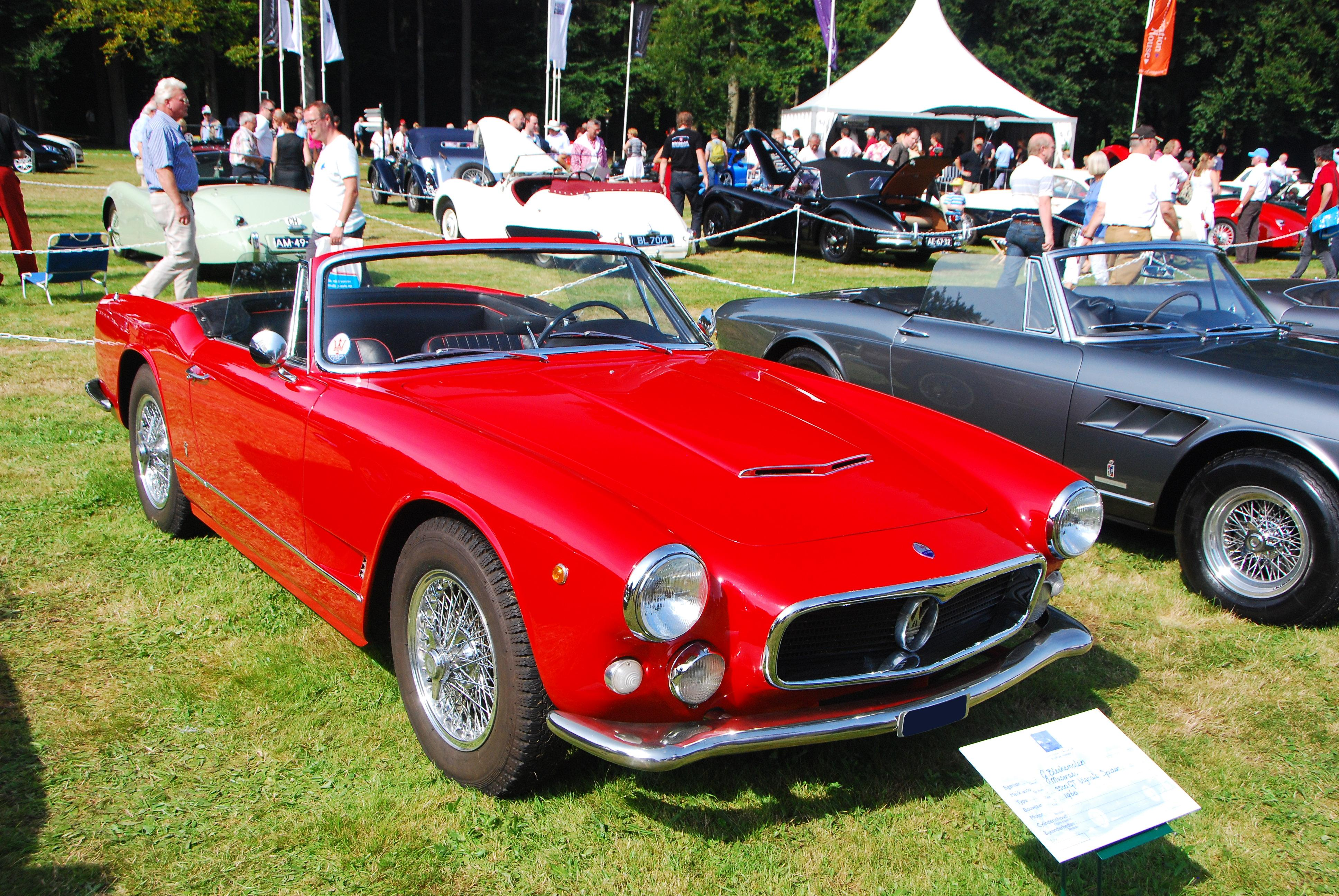 Maserati 3500 GT Spider seen during Concours d'Elegance 2008, Apeldoorn (NL)